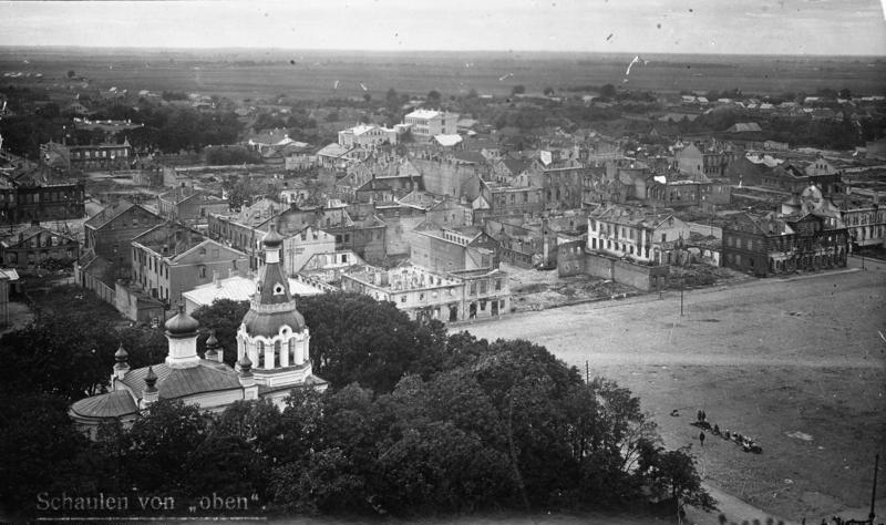 Schaulen von "oben". Information added by Wikimedia users.